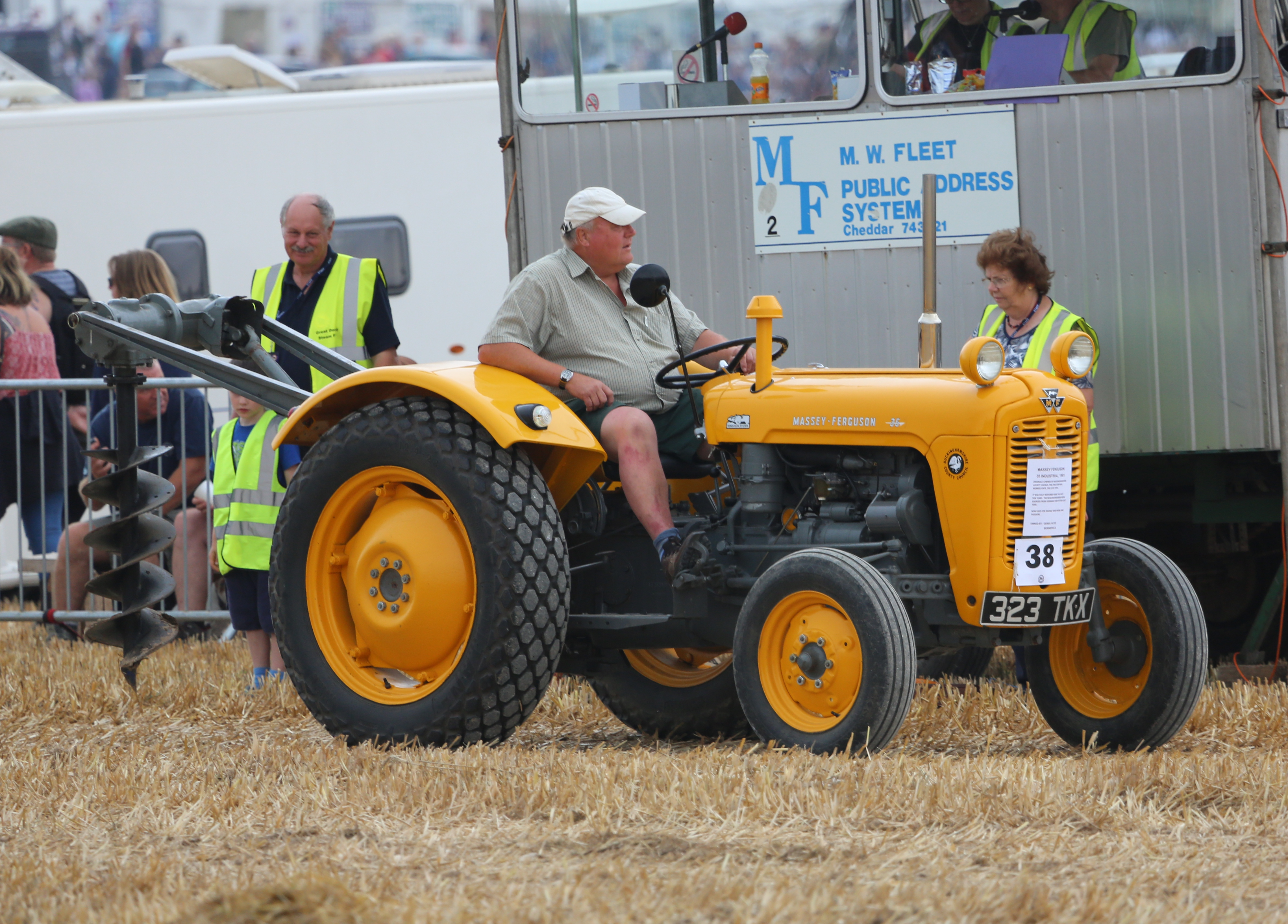 Photo of a 1961 Massey Ferguson 35 industrial.